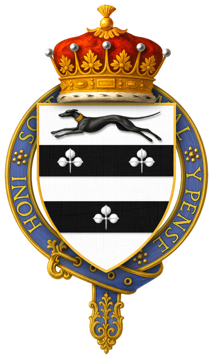 Shield of arms of William Palmer, 2nd Earl of Selborne, KG, as displayed on his Order of the Garter stall plate in St. George's Chapel, viz. Argent on two bars sable three trefoils slipped of the first, in chief a greyhound courant of the second, collared or.